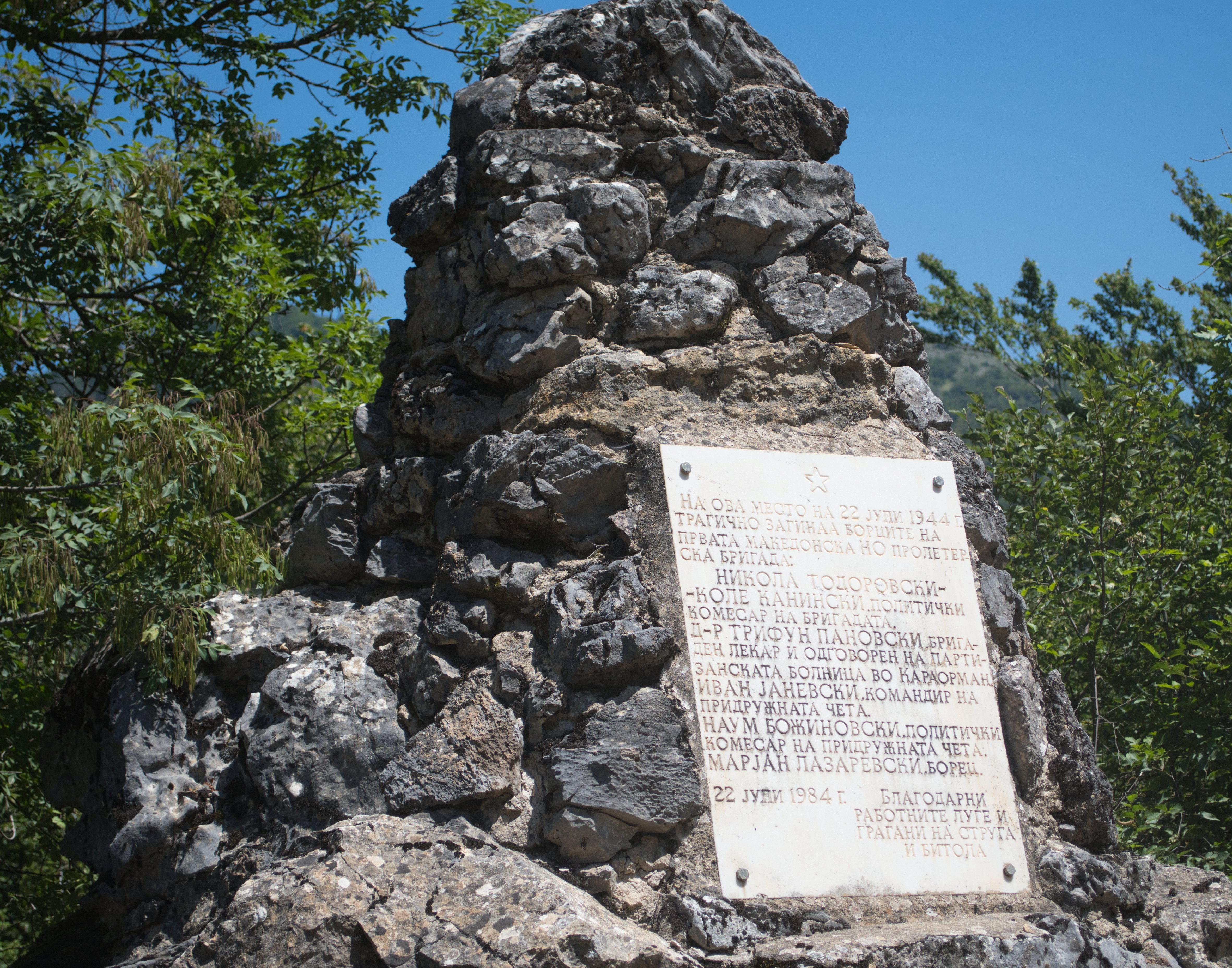 World War II monument near the road between the villages of Burinec and Lokov